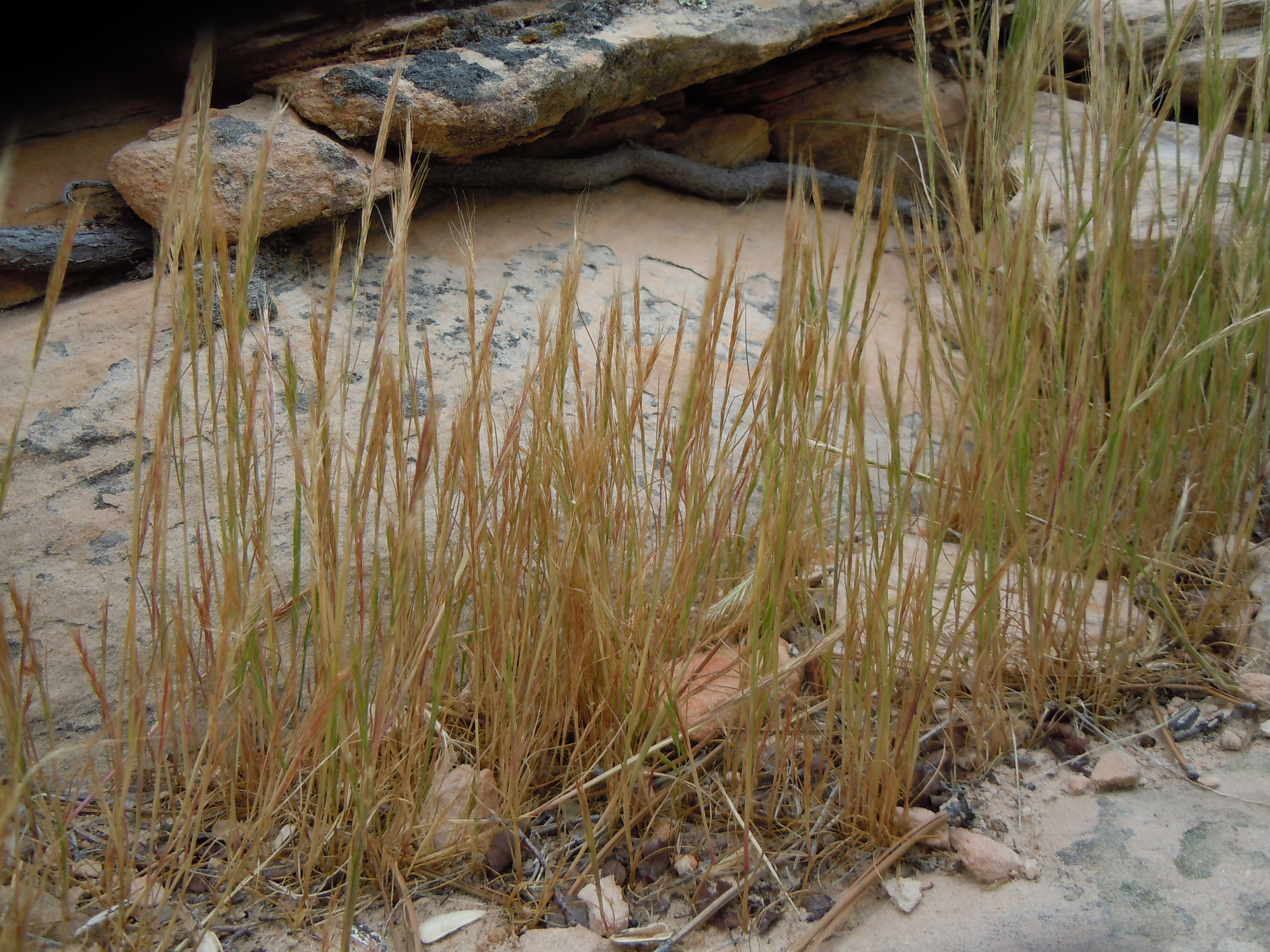 An somewhat common exotic annual fescue grass that like its native relative, Vulpia octoflora inhabits ledges of rocky slopes and cliffs in the Zion area.